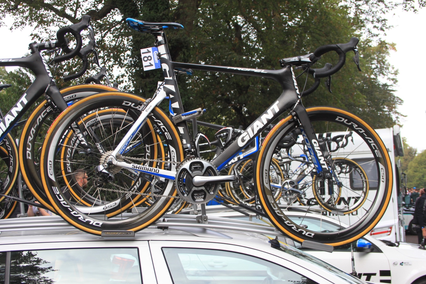 The bikes for the Giant-Shimano riders carried on top of their team cars to the Royal Victoria Park, Bath, ready for stage 6 of the 2014 Tour of Britain. Nearest the camera is the one to be ridden by theri squad leader, Marcel Kittel.